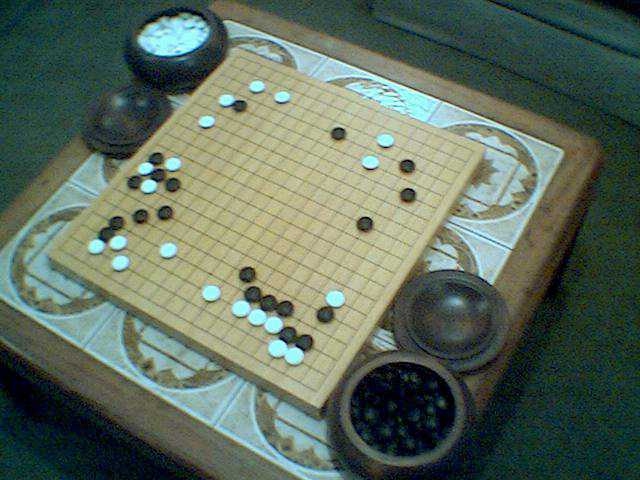 1989 Meijin tournament, Round 1, After move 40. -- SGBailey 16:47, 2005 Mar 4 (UTC) Note: Japan has a copyright law probably with a different length of expiration of copyright. It is not safe for us to assume this is in public domain because it is old. -- Taku 03:24, Sep 25, 2004 (UTC) I'm assuming this is a reconstruction of the board and a self-taken photo by the uploader. The board layout itself should not attract copyright.Rodhullandemu